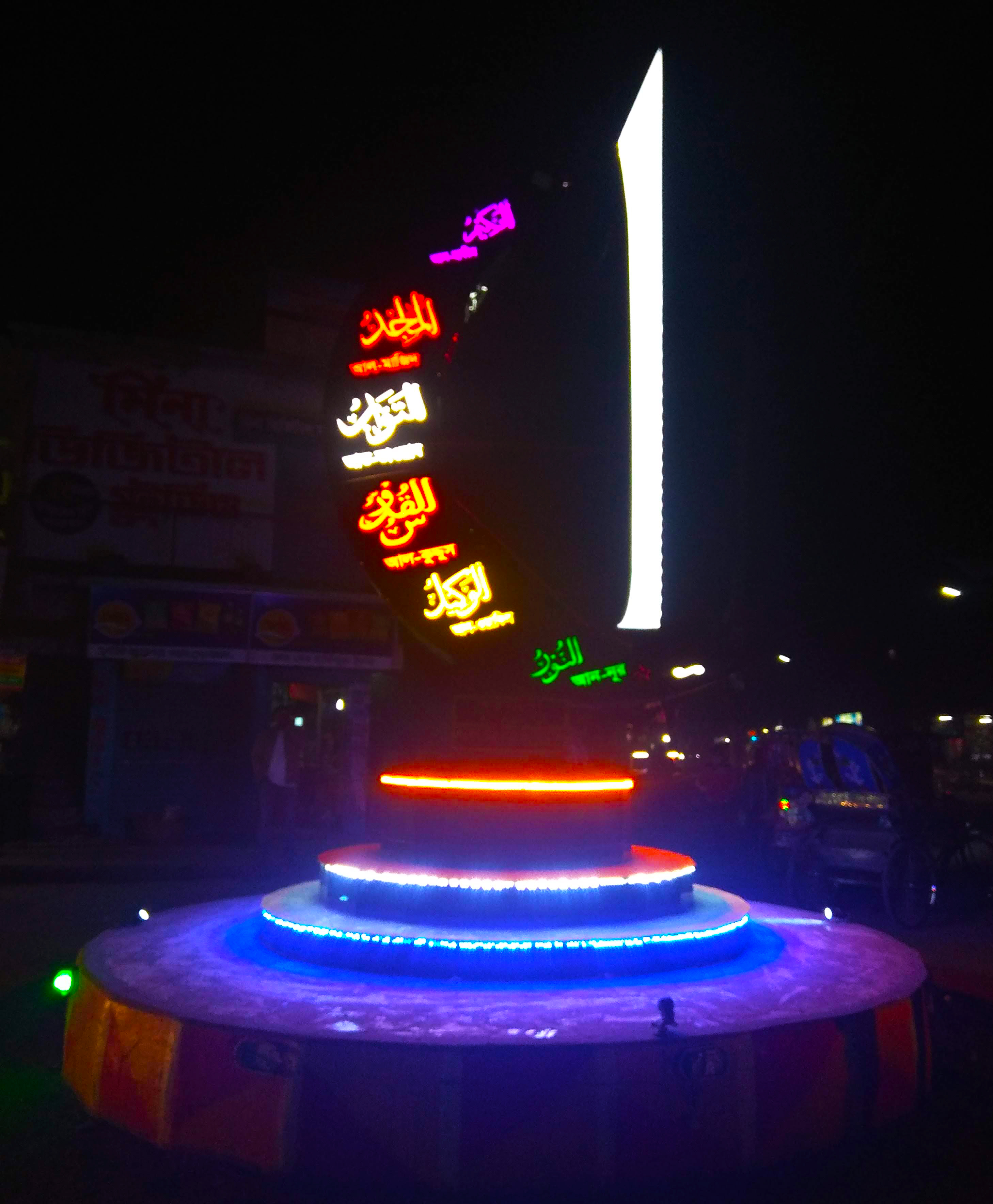 In this sculpture praising Names of God in Islam described. It is situated in Kanchijulee More, Mymensingh